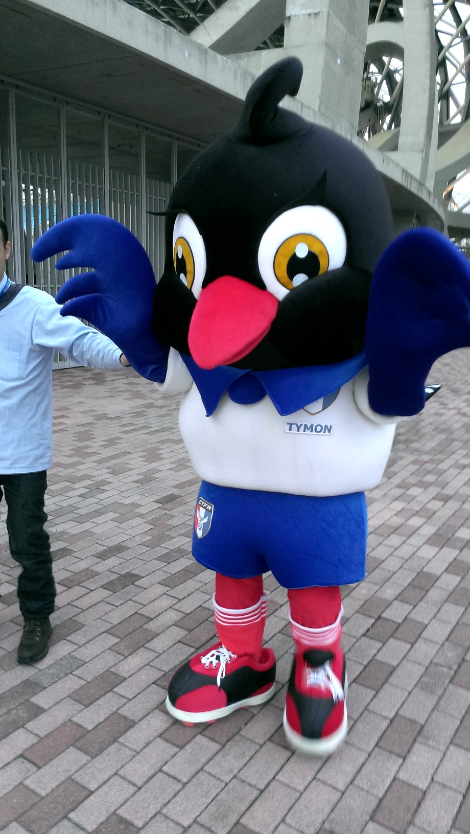 Tymon, the mascot of Chinese Taipei national football team